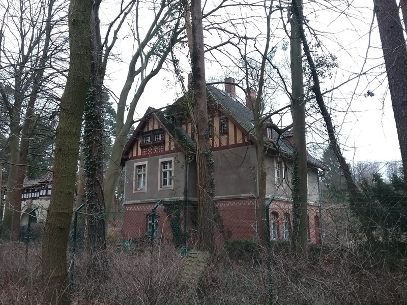 Waterworks Köpenick in Berlin-Köpenick